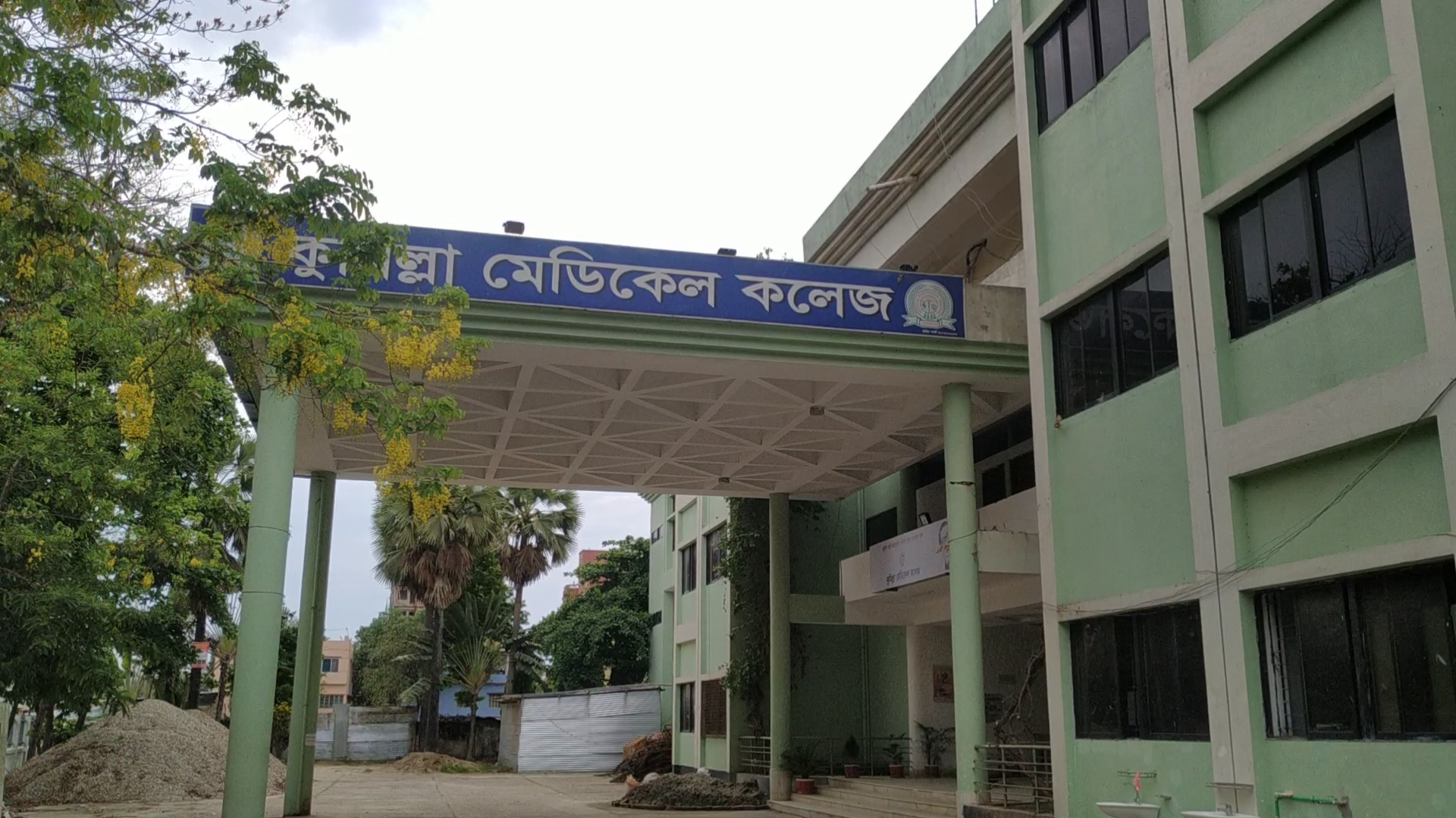 Comilla medical college & hospital in comilla district